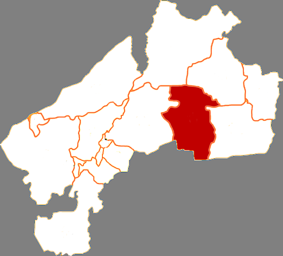 Location of Yian County in Qiqihar City, China